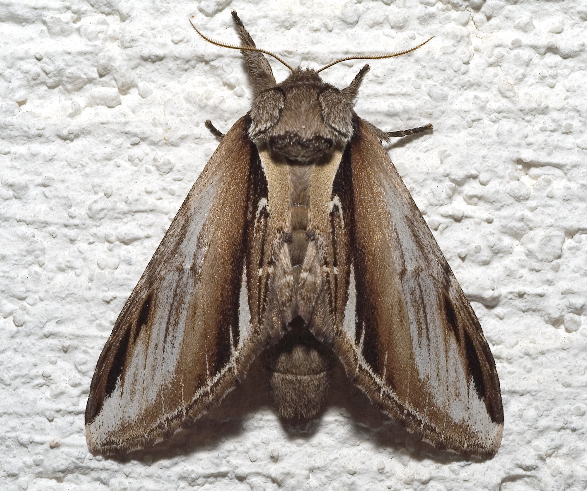 Please report references to kulacgmx.at.